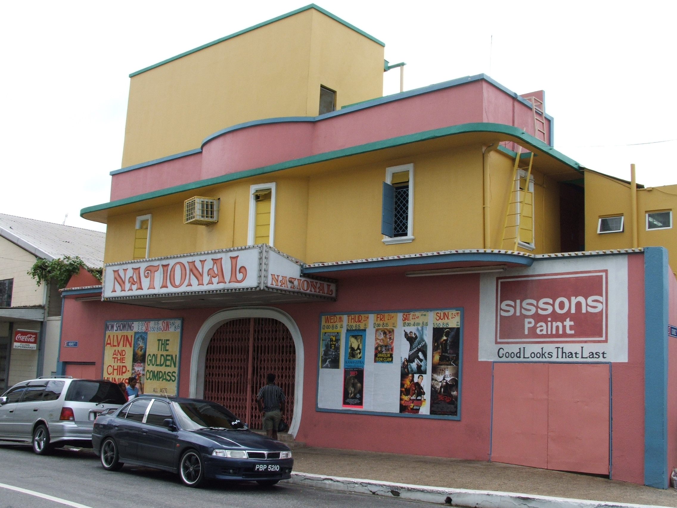 National Cinema, San Fernando, Trinidad & Tobago